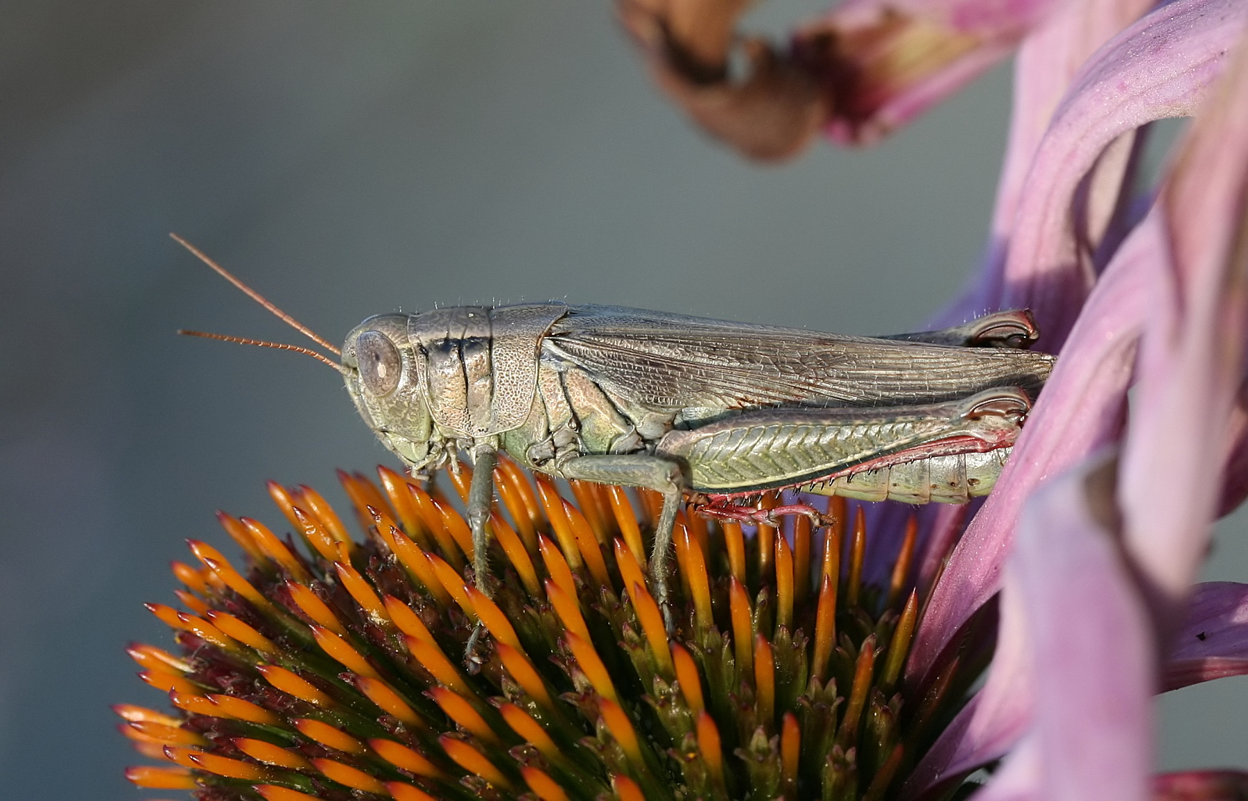 Yarrow's Spur-Throat Grasshopper Found in Oakland, California.